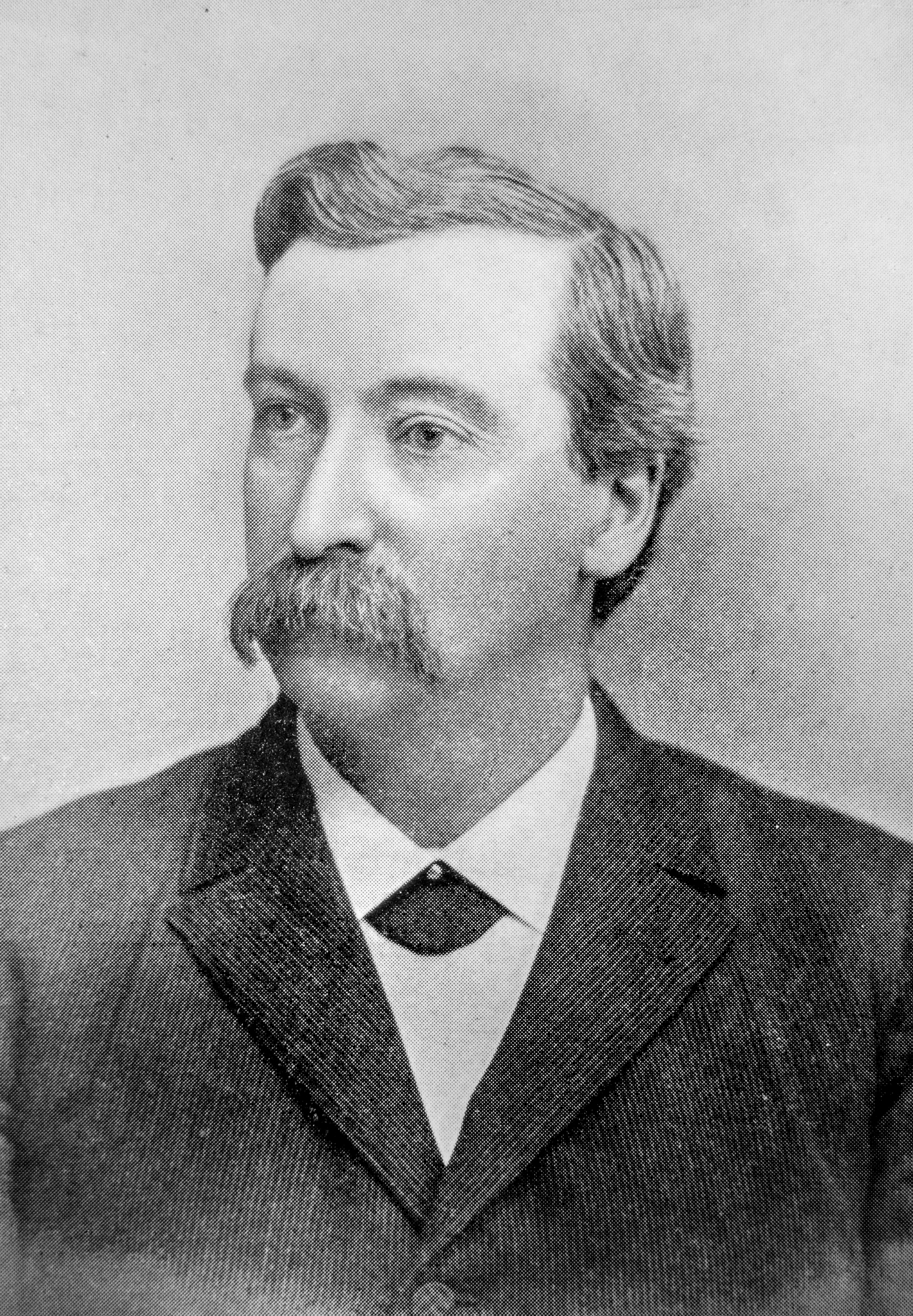 Dr. L.F.C. Garvin. Representative from Cumberland 1883-7, 1893, 1895; Senator, 1889-91. Halftone. Source: An Illustrated History of Pawtucket, Central Falls, and Vicinity by Robert Grieve (1897).